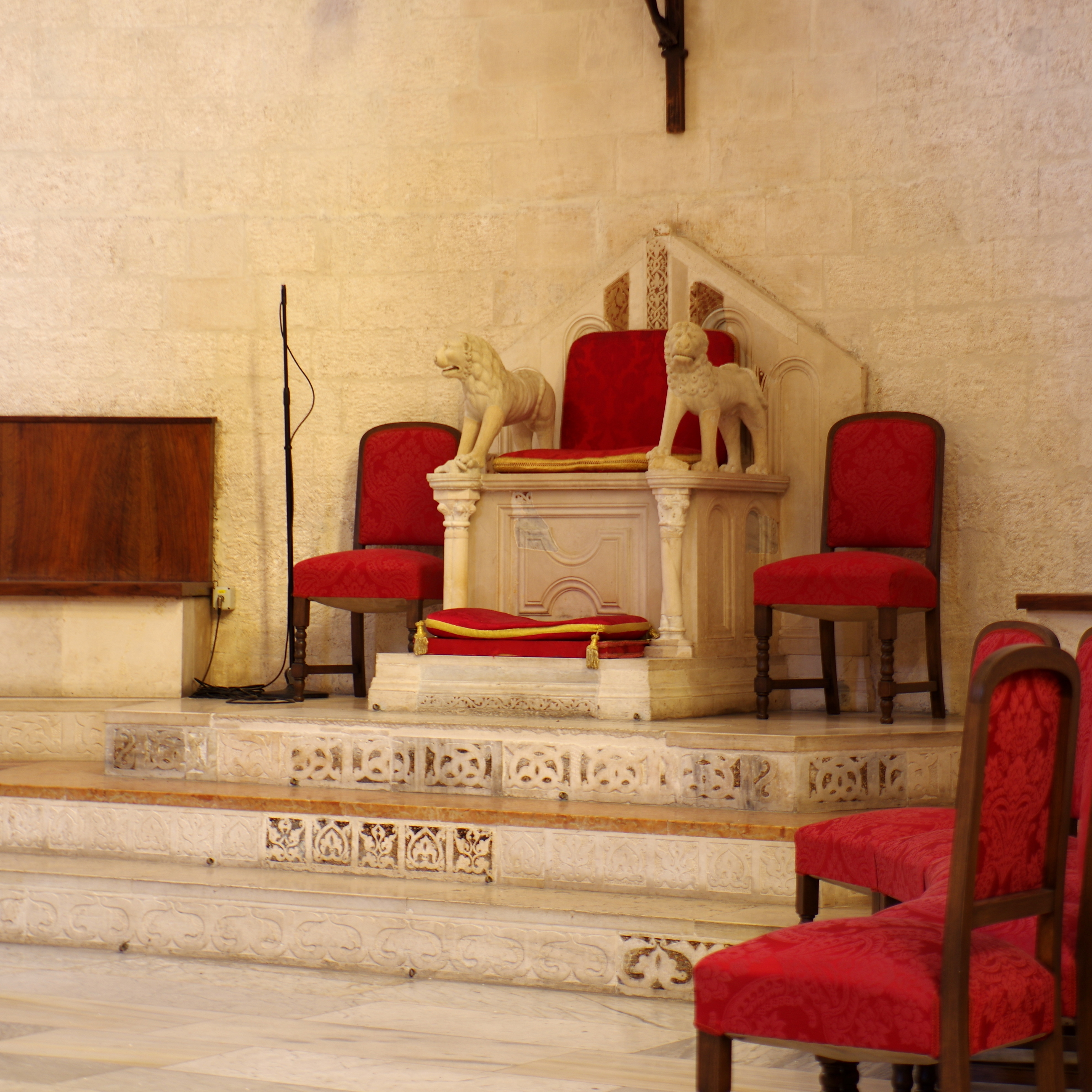 Italy, Bari, Cathedral San Sabino